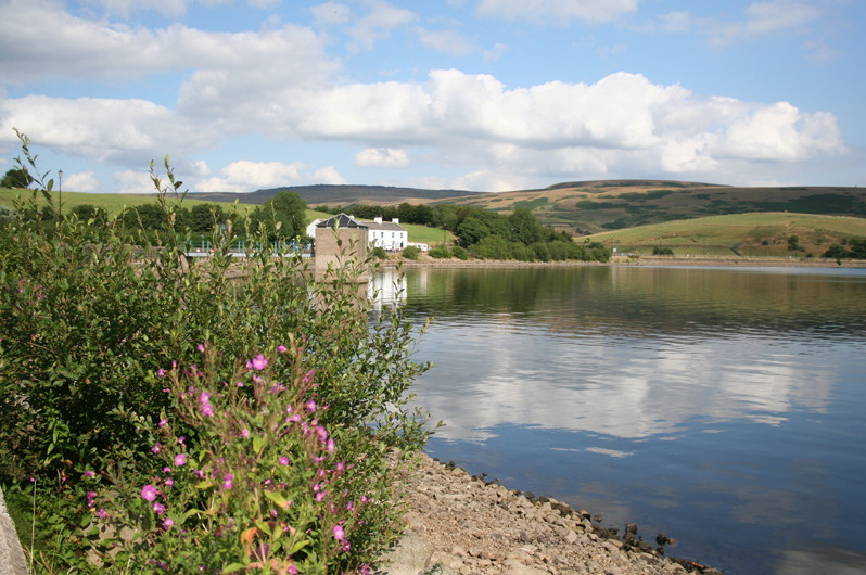 Hollingworth Lake, taken from the north shore